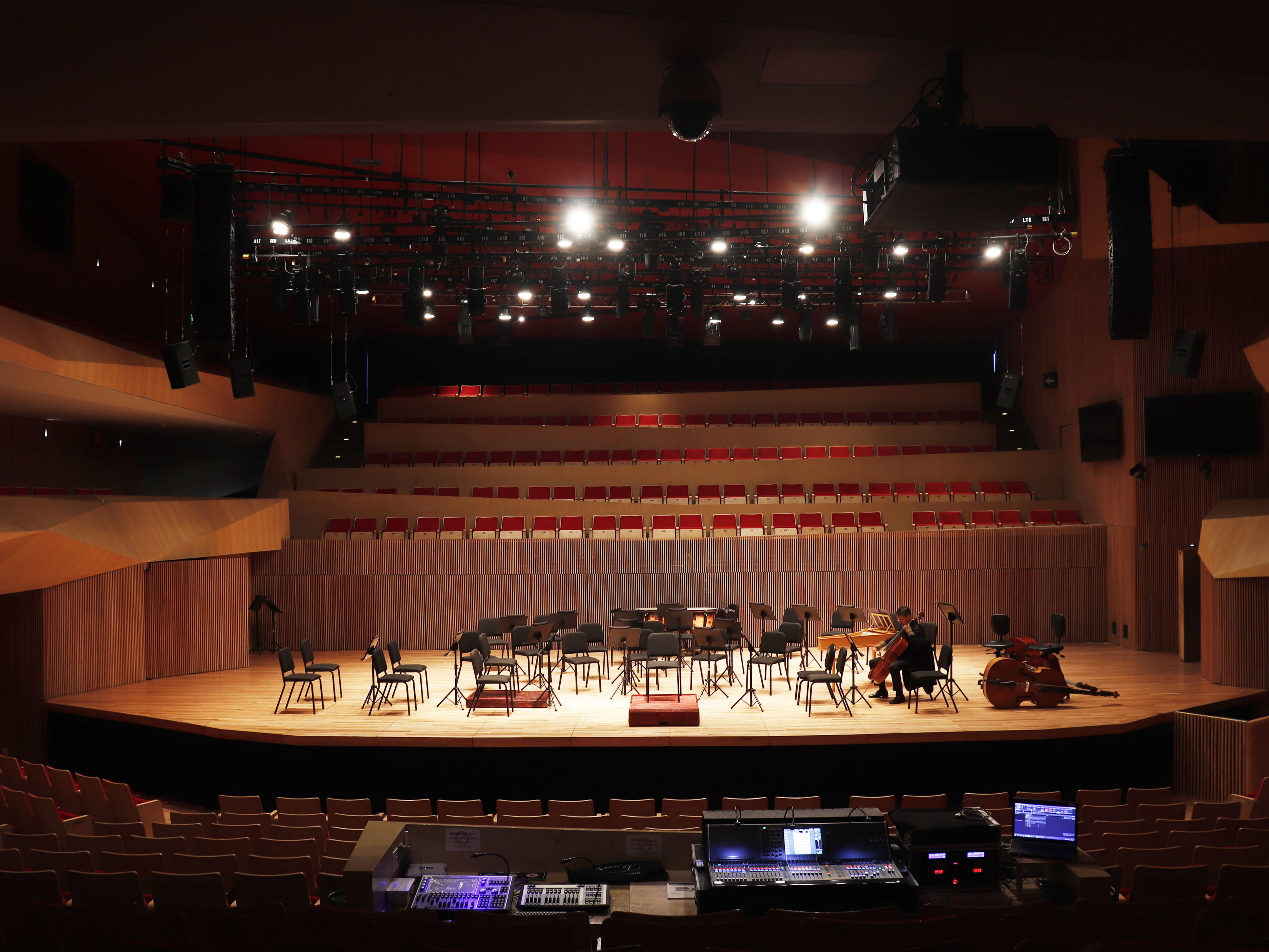 A view inside Centro Cultural Roberto Cantoral before a concert in Sunday, January 20, 2019. Picture by David Sanchez / Secretaria de Cultura de la Ciudad de Mexico.